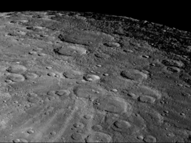 Oblique Mariner 10 image centered on Han Kan crater, near Mercury's south pole. Rays in the foreground emanate from Han Kan.Cropped from original. Most static removed but some may remain, especially in upper right.